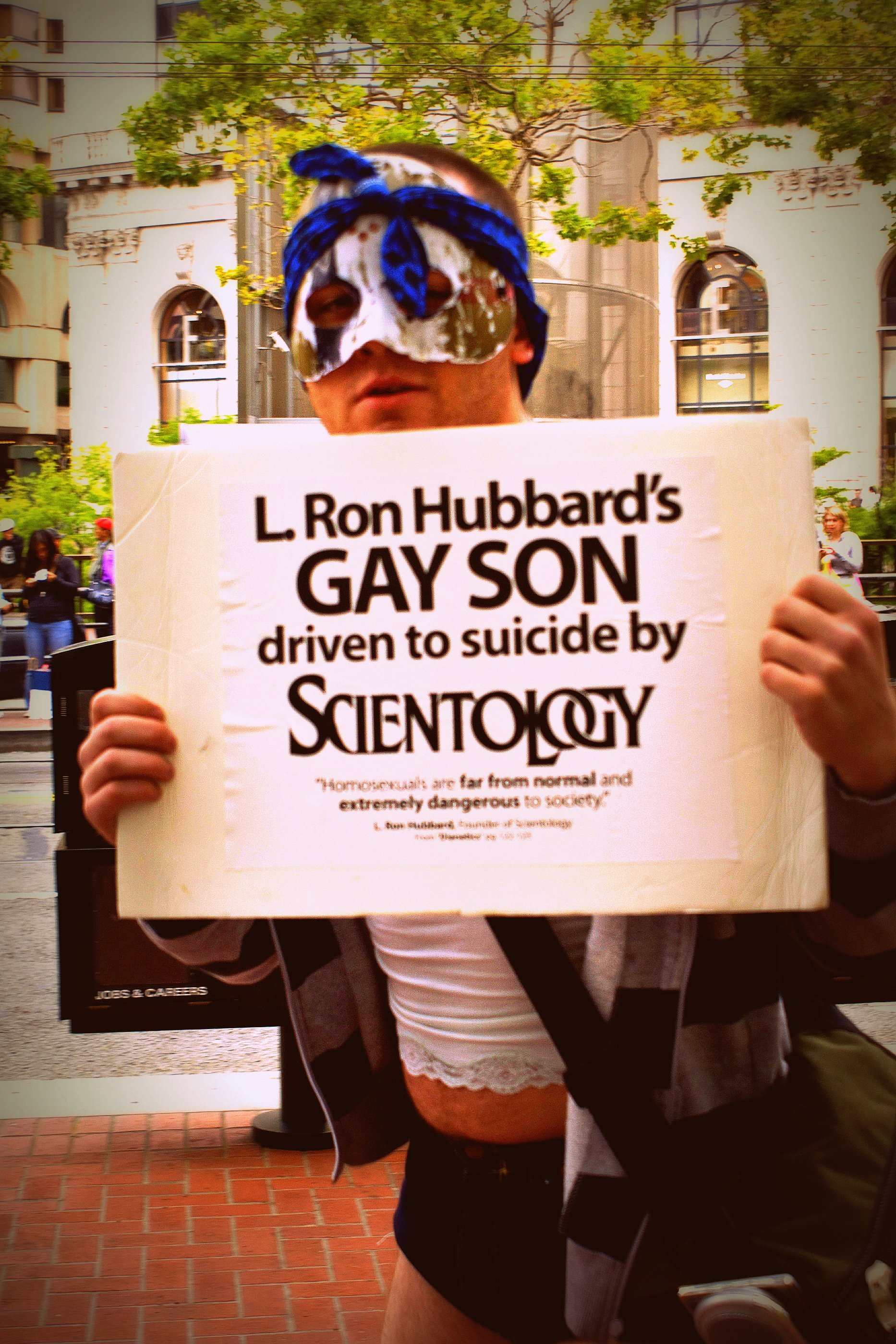 2008-06 San Francisco "Anonymous" anti-Scientology protests